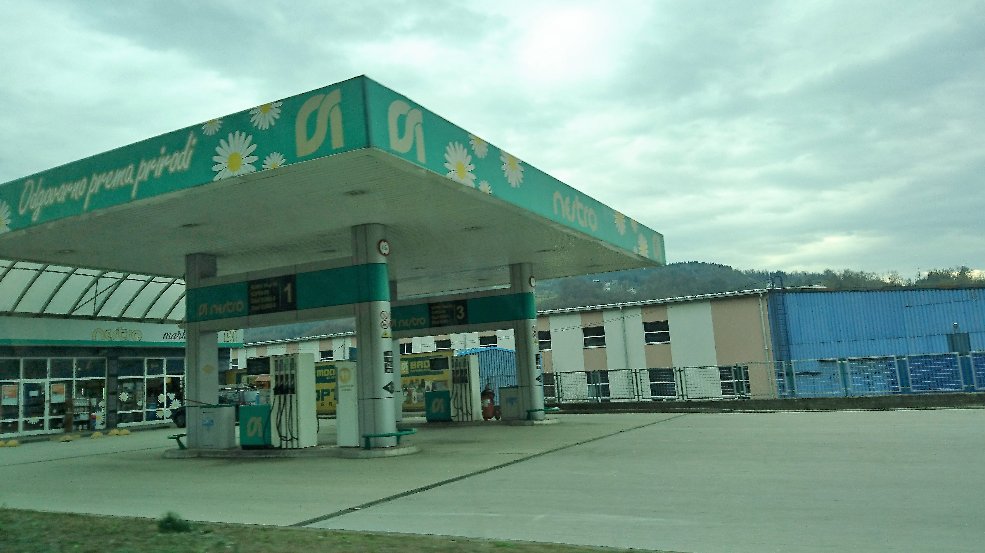 A Nestro Petrol petrol station near Kaonik, Bosnia and Herzegovina